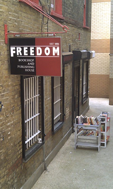 Updated photograph of the Freedom Press building in Whitechapel